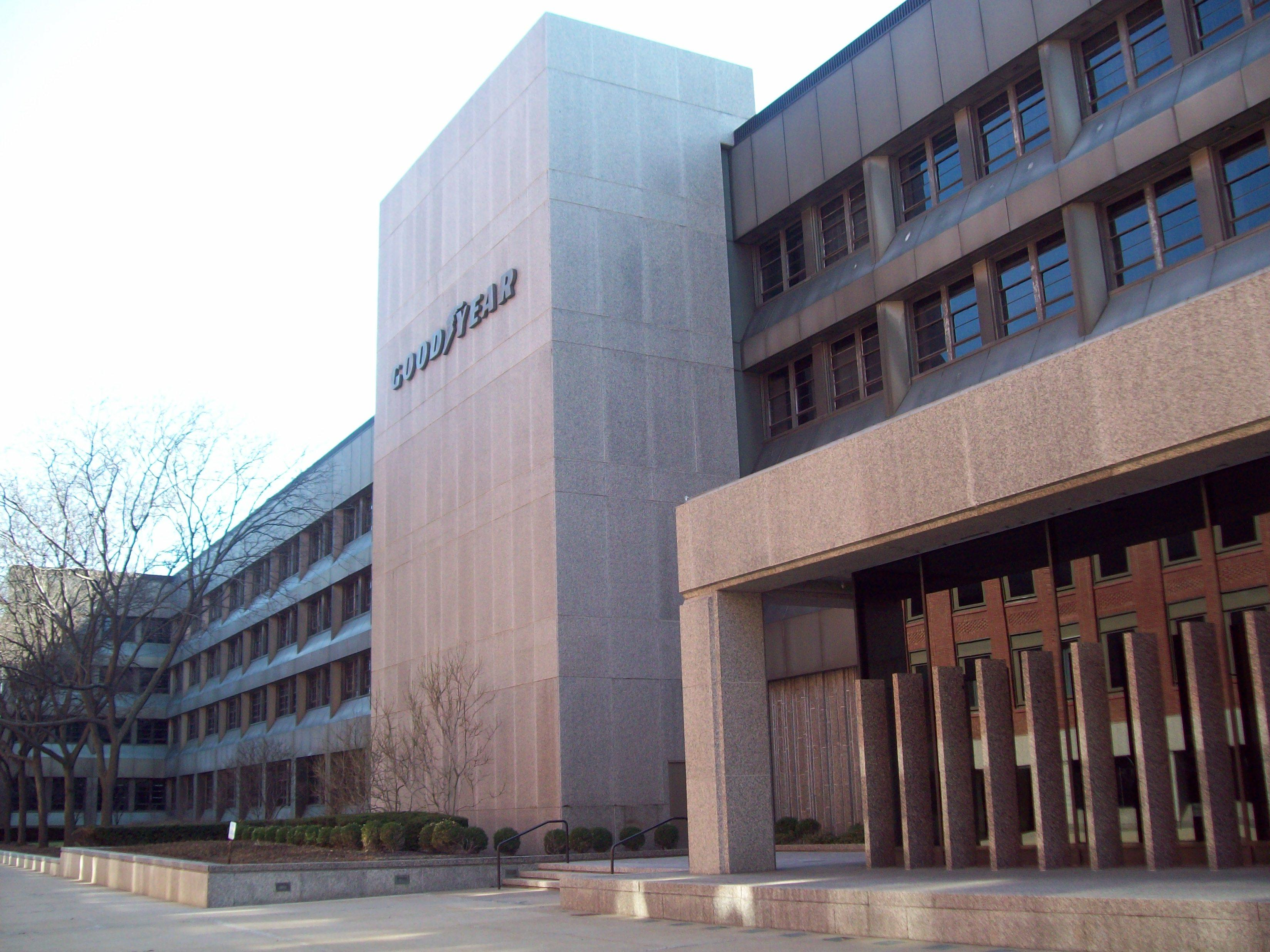 Goodyear Headquarters in Akron, Ohio.